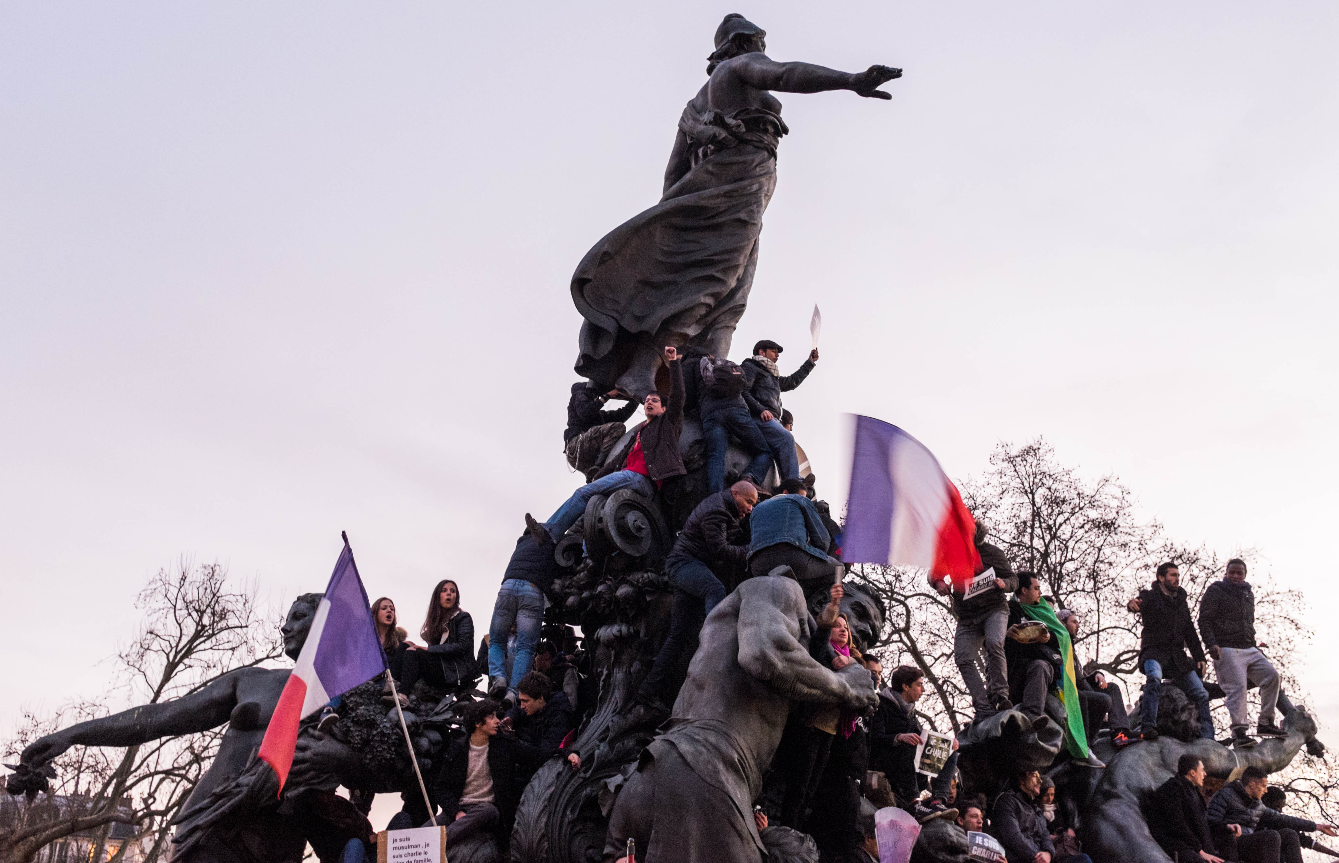 Paris rally in support of the victims of the 2015 Charlie Hebdo shooting, 11 January 2015.